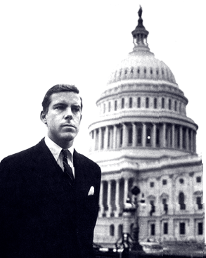 Image of Worth Bingham, from site of the Worth Bingham Prize